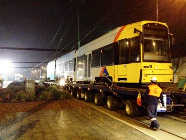 Outside the Adelaide Entertainment Centre in the Adelaide suburb of Hindmarsh, at night-time in 2006, a Bombardier Flexity Classic tram is delivered by low-loader vehicle from Melbourne, following modifications at Preston Workshops. The location, at the terminus in the median strip of the Port Road, provided convenient off-road access to tram tracks.